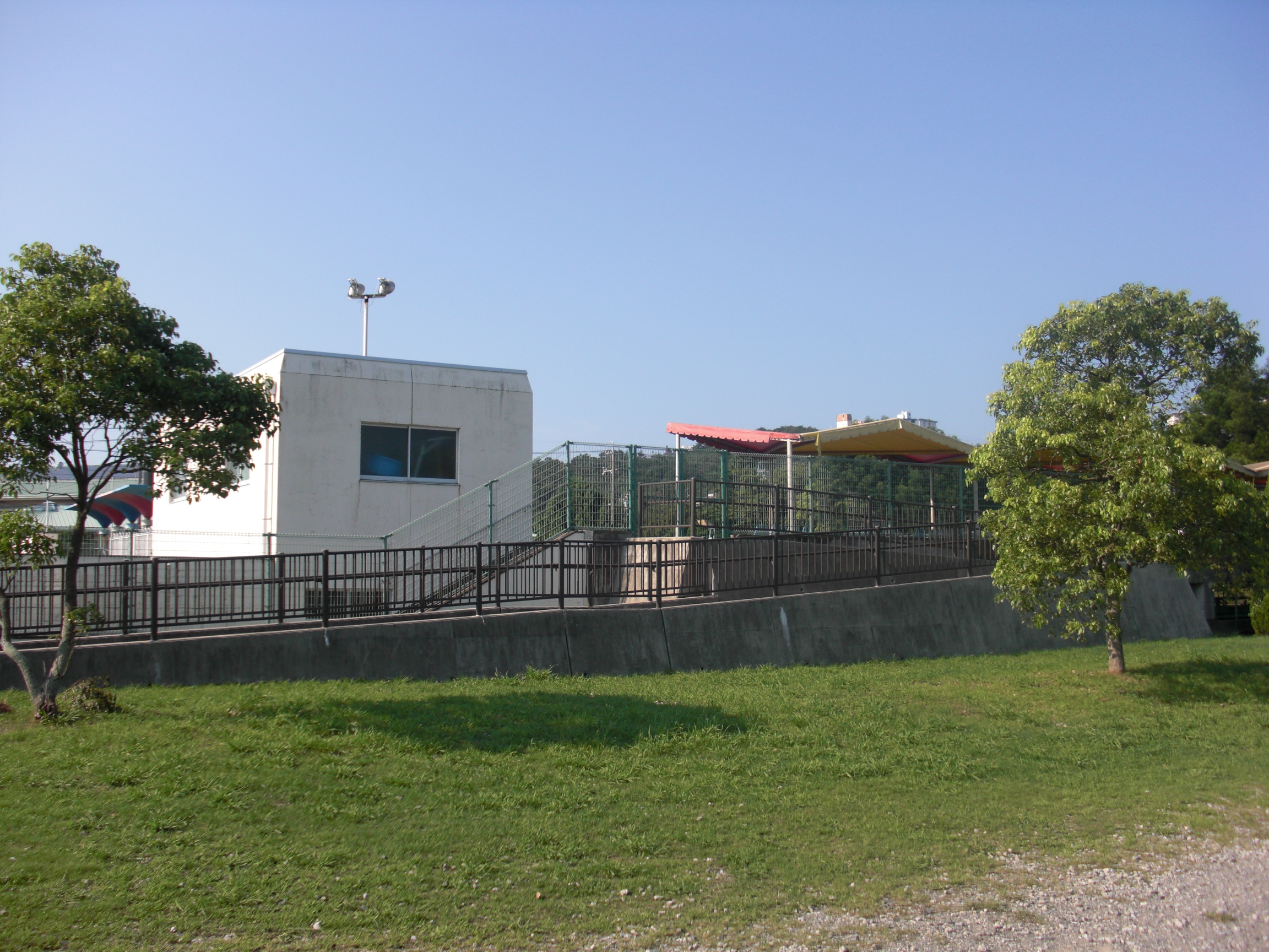 This is the Toba Central Park Swimming Pool in Toba, Mie, Japan.